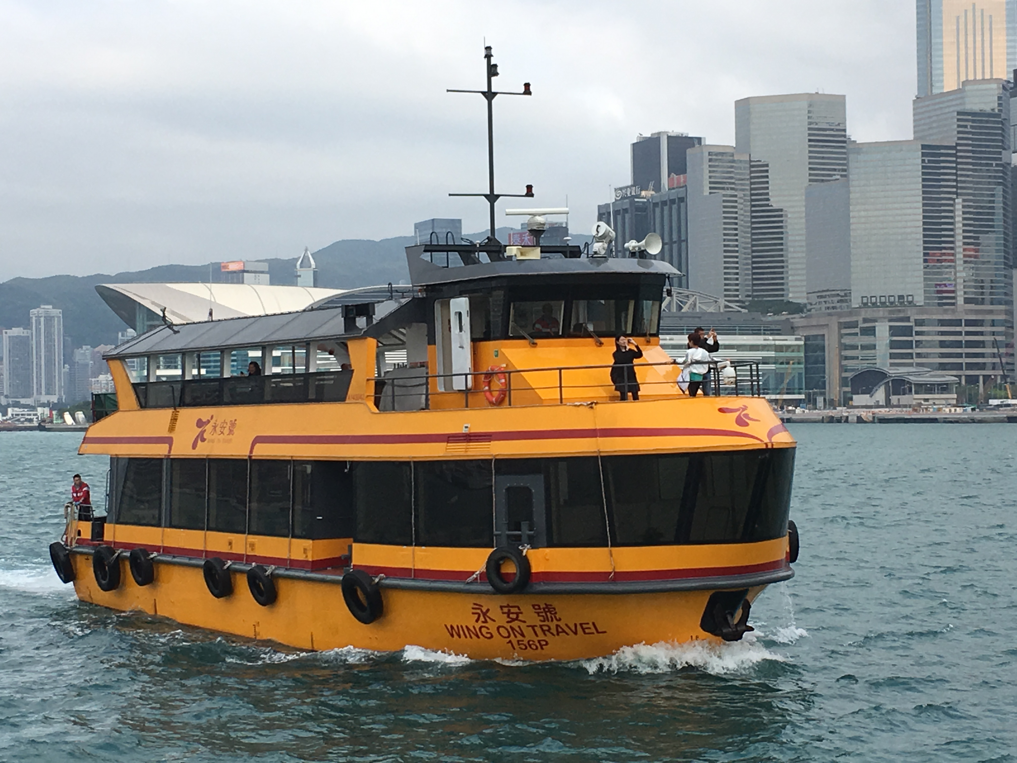 中文（香港）: This photo is taken in Central.